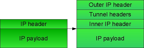 Diagram illustrating IP tunnelling, created 01/12/07. Self-made, by Taliesin Edwards (Mouchoir le Souris).